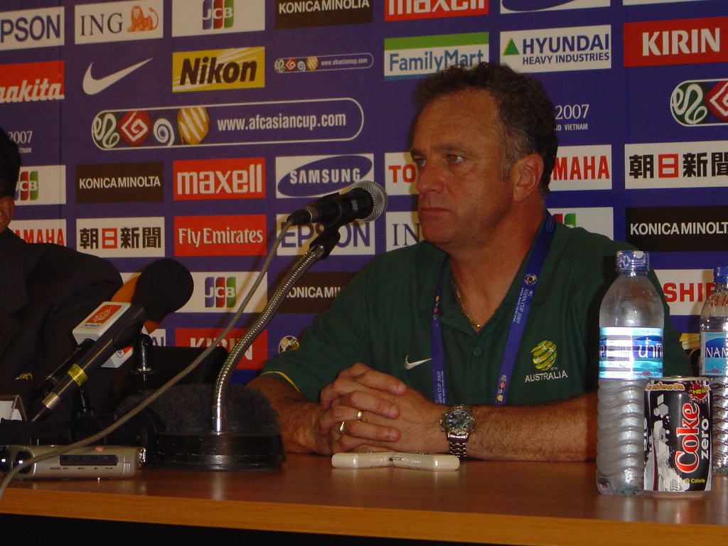 Australian soccrer coach Graham Arnold